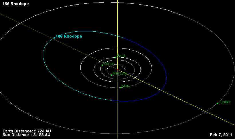 166 Rhodope orbit